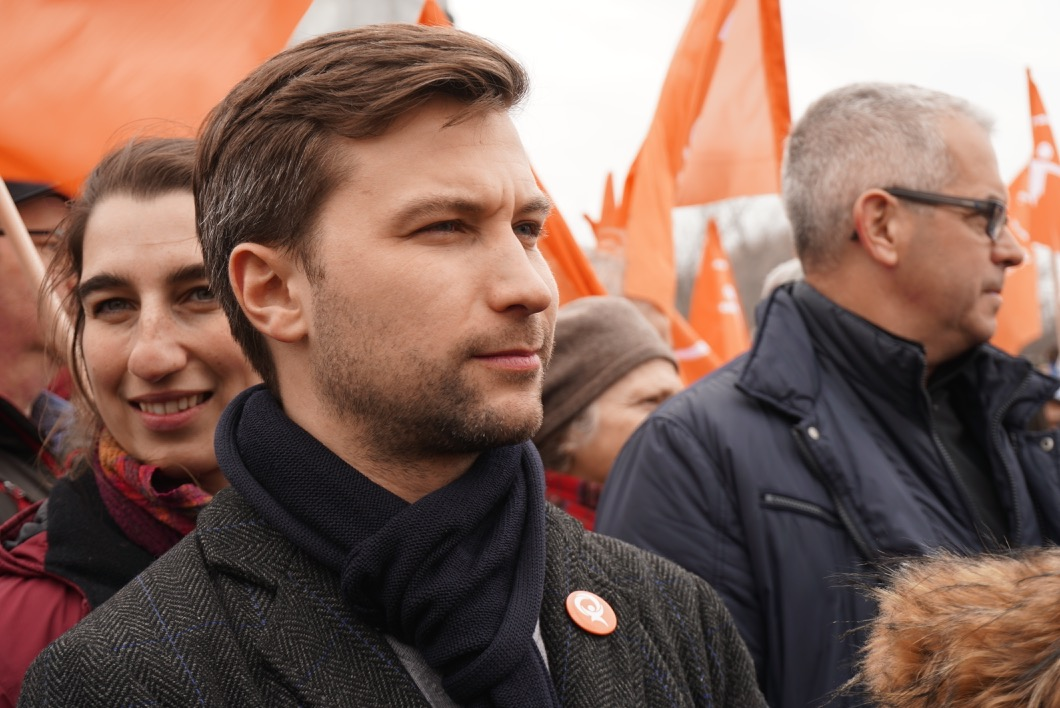 March for Climate Action Montreal, March 15, 2019